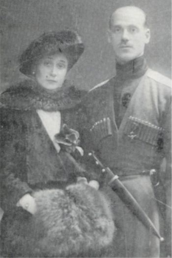 Grand Duke Michael Alexandrovich of Russia with wife Natalia, Princess Brassova